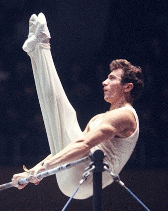 Viktor Lisitsky at the 1964 Olympics